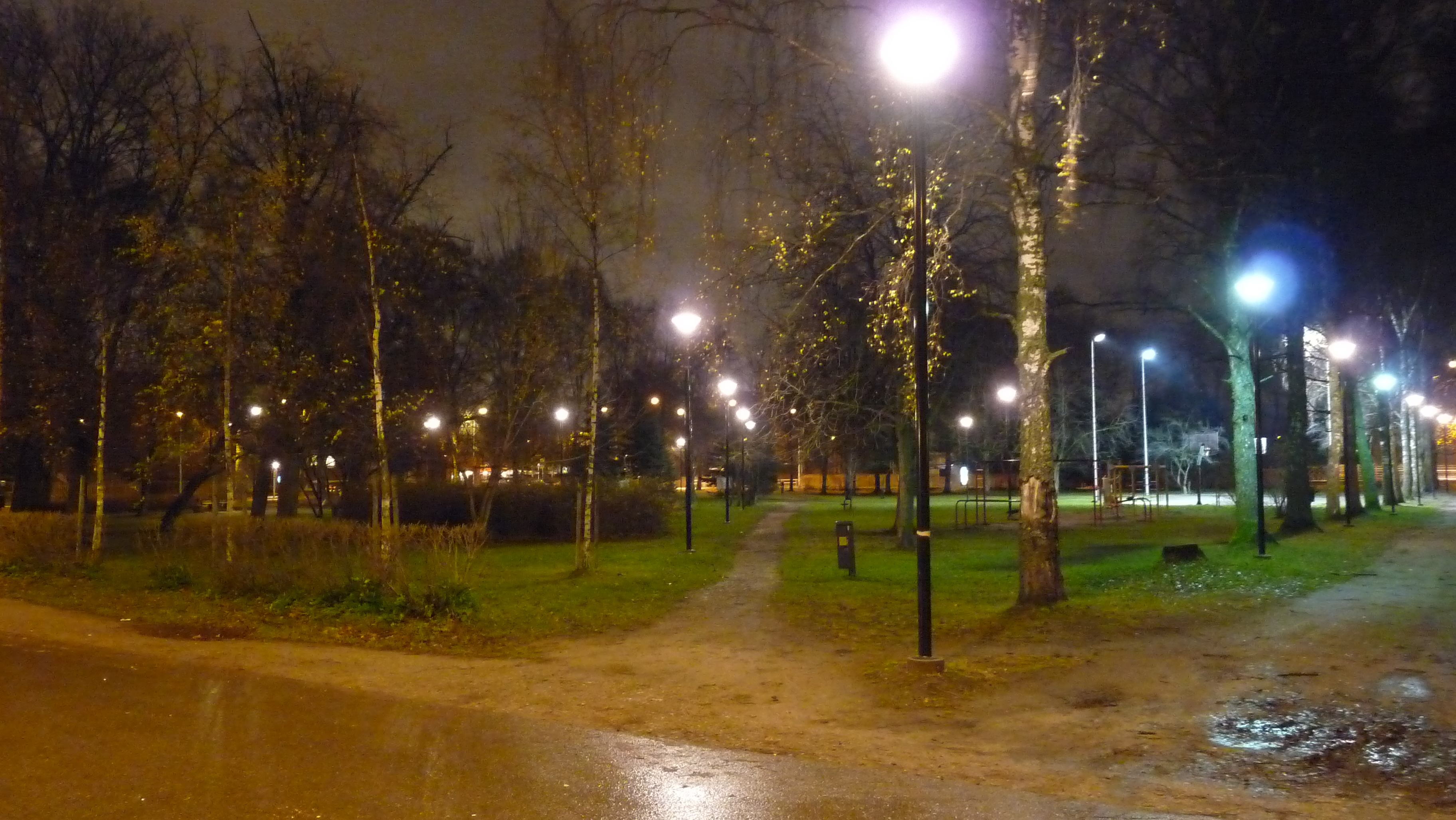 Räägu park in Tallinn, Estonia